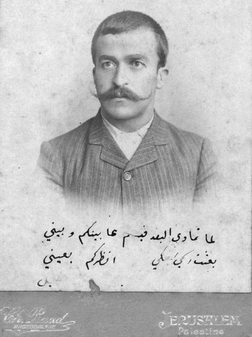 Khalil Raad, Signed portrait of Khalil Sakakini, Jerusalem, 1906. Institute for Palestine Studies photo archives, Ramallah